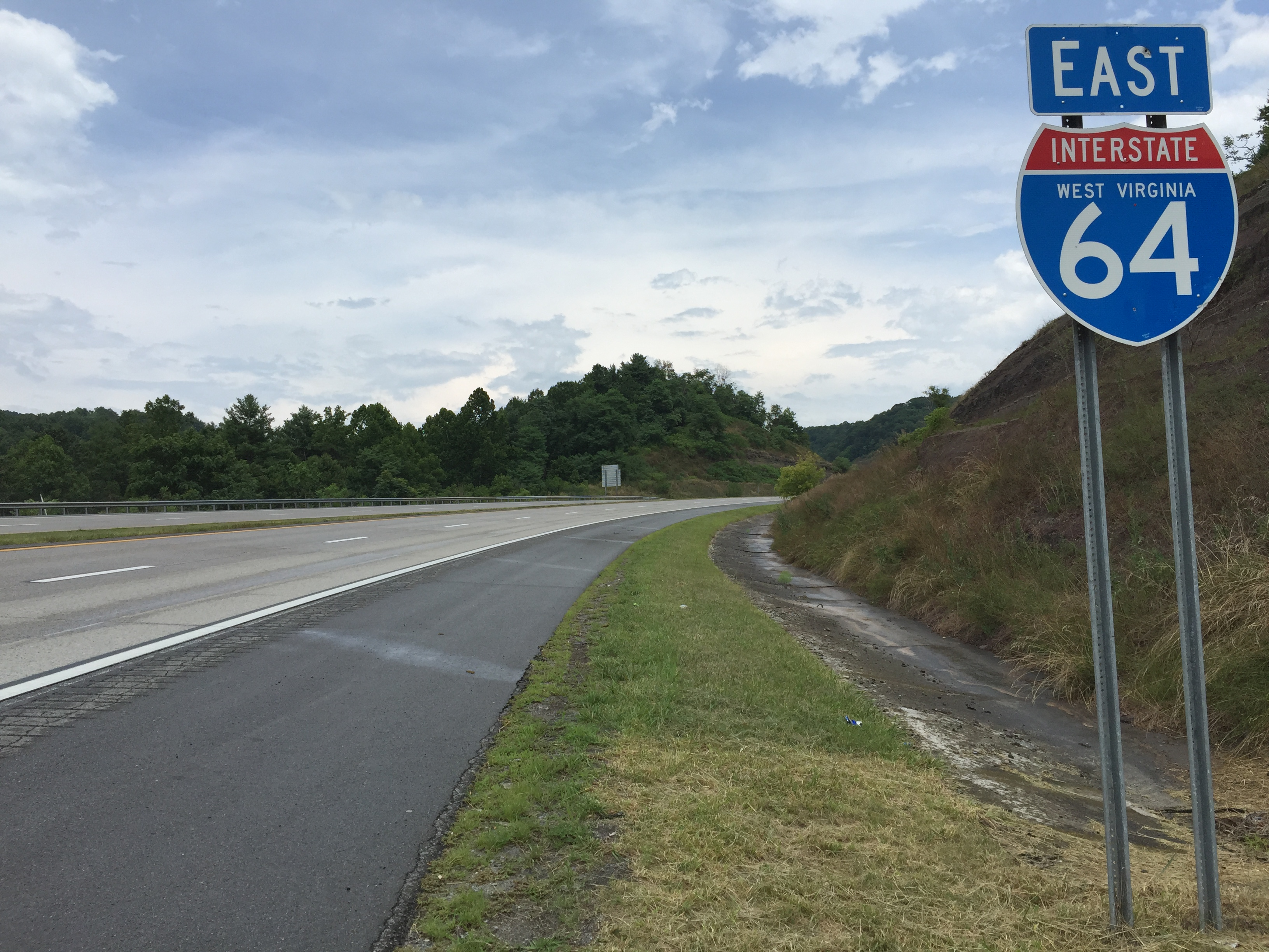 View east along Interstate 64 just east of Exit 139 (West Virginia State Route 20, Sandstone, Hinton) in Sandstone, Summers County, West Virginia